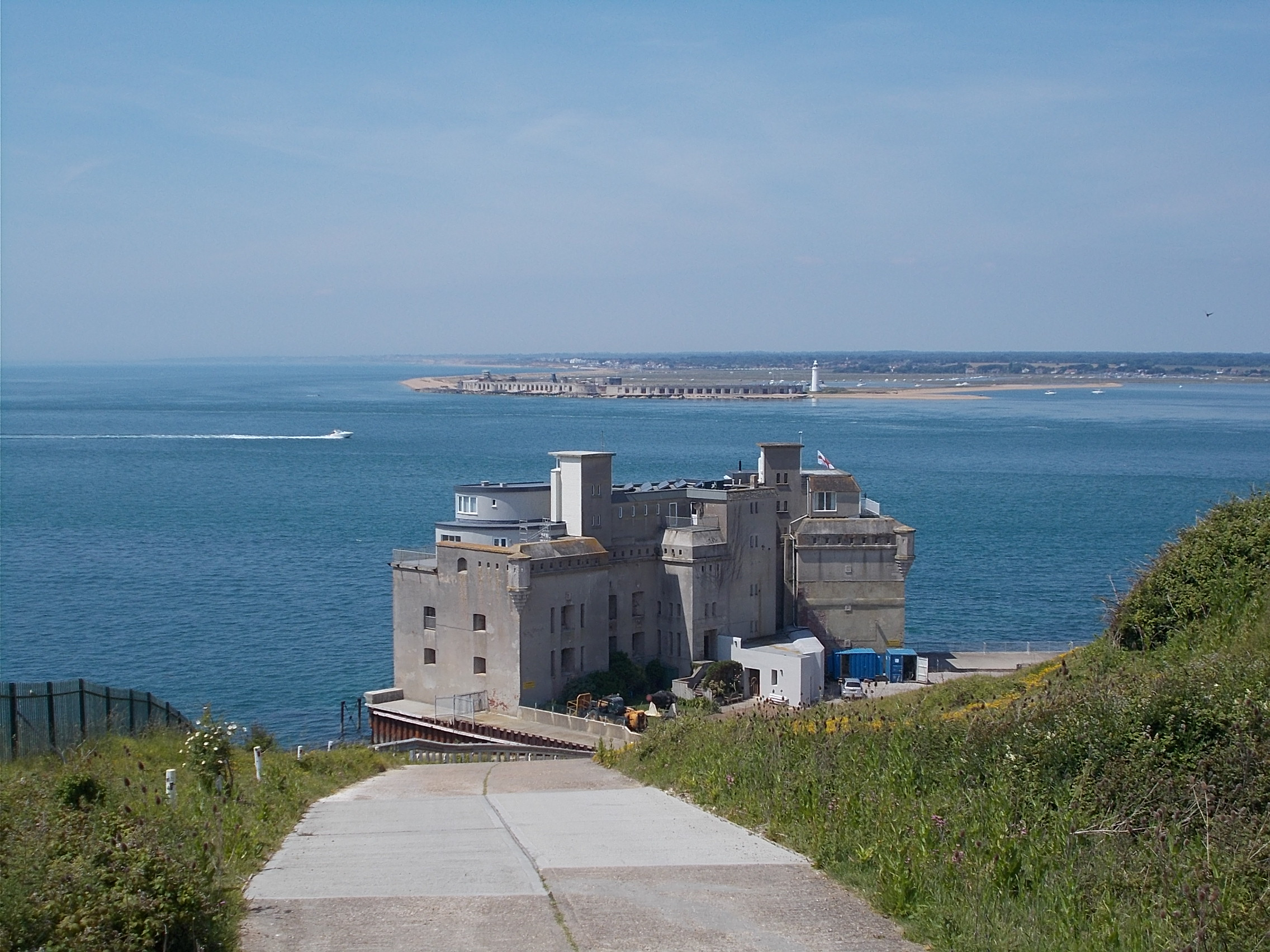 Fort Albert, Colwell, Isle of Wight, UK, with Hurst Castle on the mainland in the background